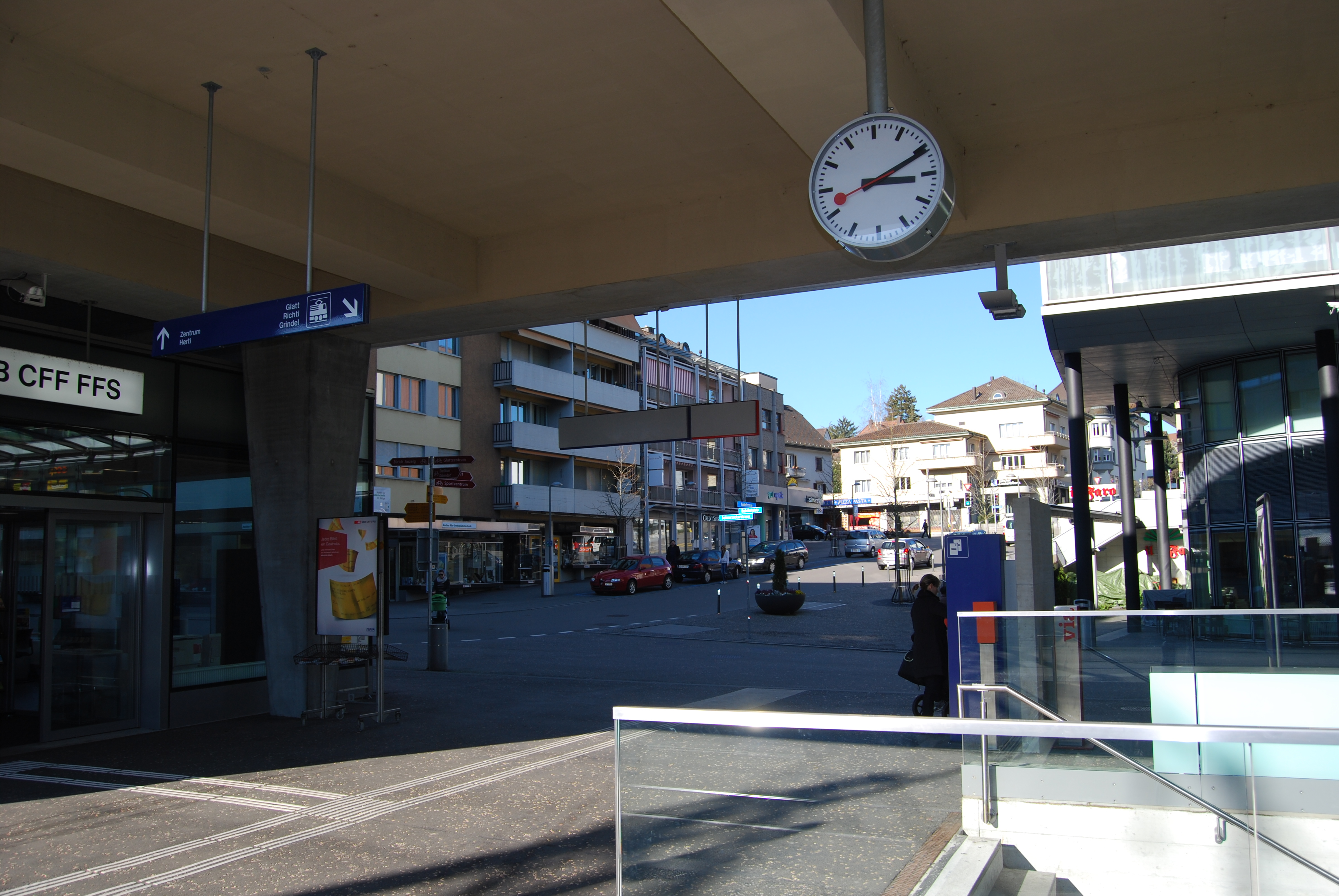 Railway station Wallisellen, canton of Zürich, Switzerland